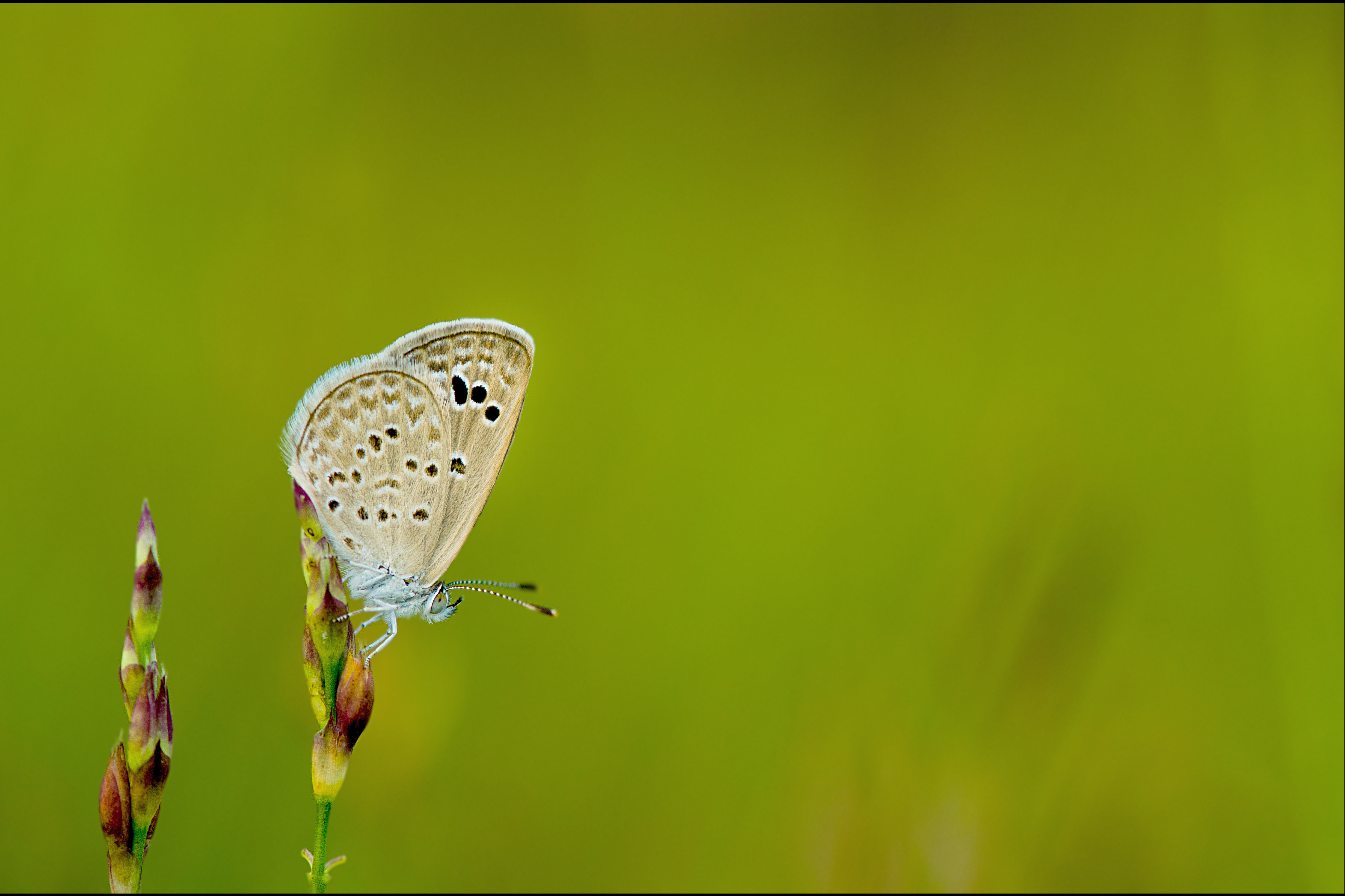 The Lesser Grass Blue (Zizina otis) is a species of blue butterfly found in south Asia,Recorded from Madayippara,Kerala India.